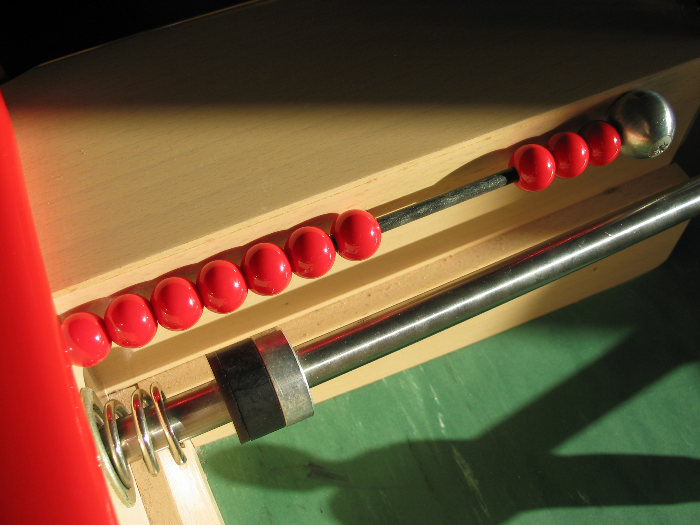 A table football's abacus